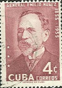 Cuban Postage stamp from 1955 on Emilio Nunez, former general and VP of Cuba.